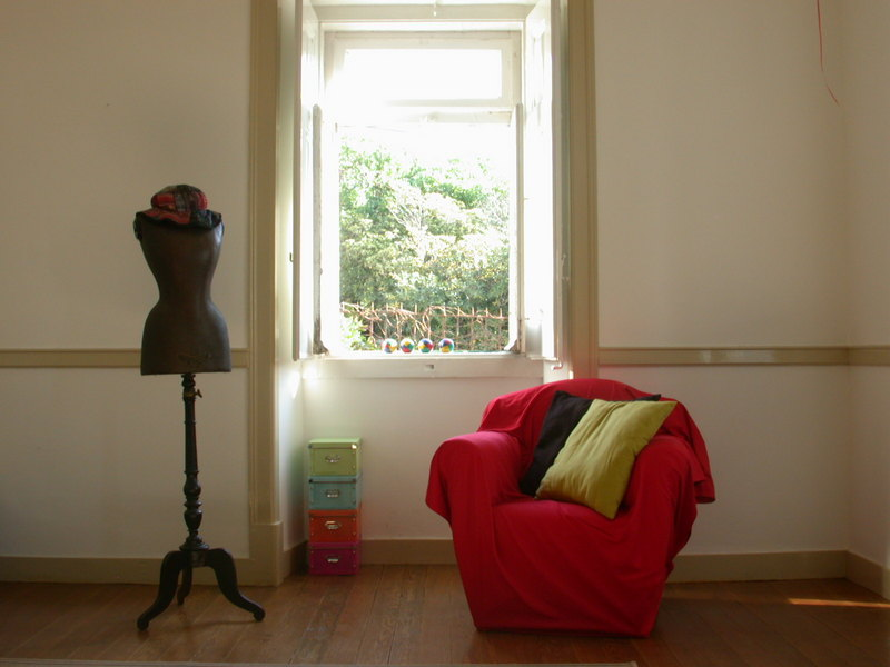 Open window with armchair and manequin. Sample scene for HDRI (standard LDR, taken using auto exposure).